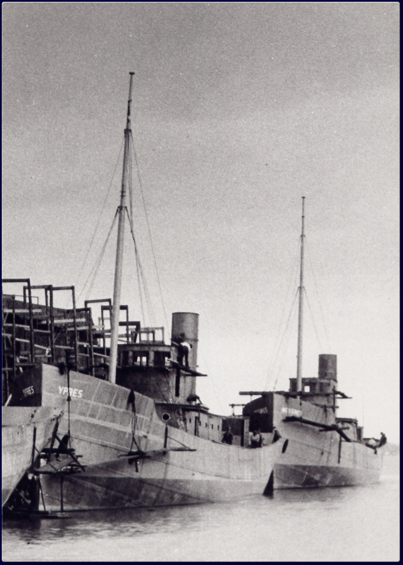 Photograph showing Canadian Battle class naval trawlers under construction, left - right : HMCS Vimy, HMCS Ypres and HMCS Messines, Toronto Ontario.